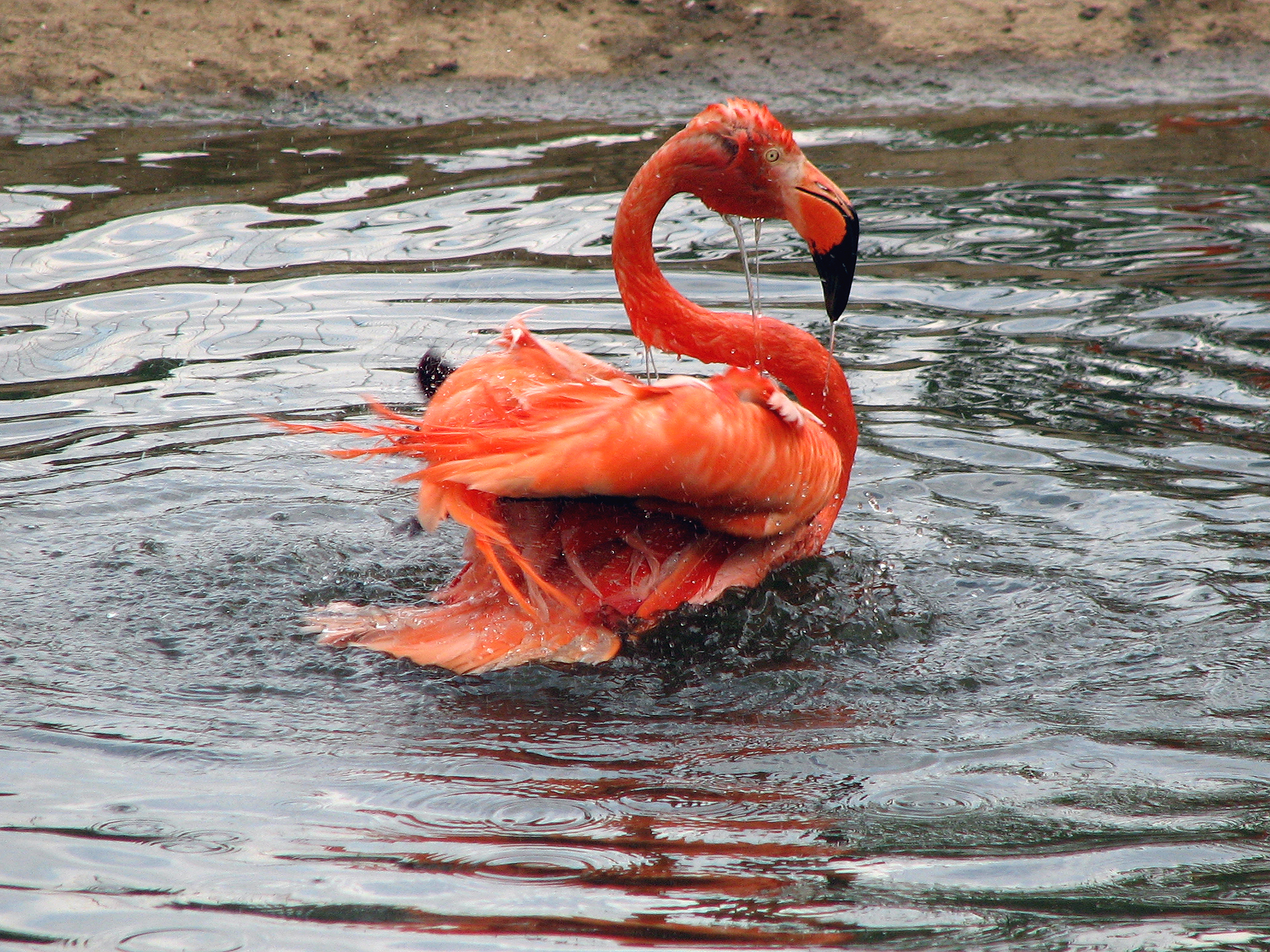 Bathing American Flamingo (Phoenicopterus ruber) in the Moscow zoo.